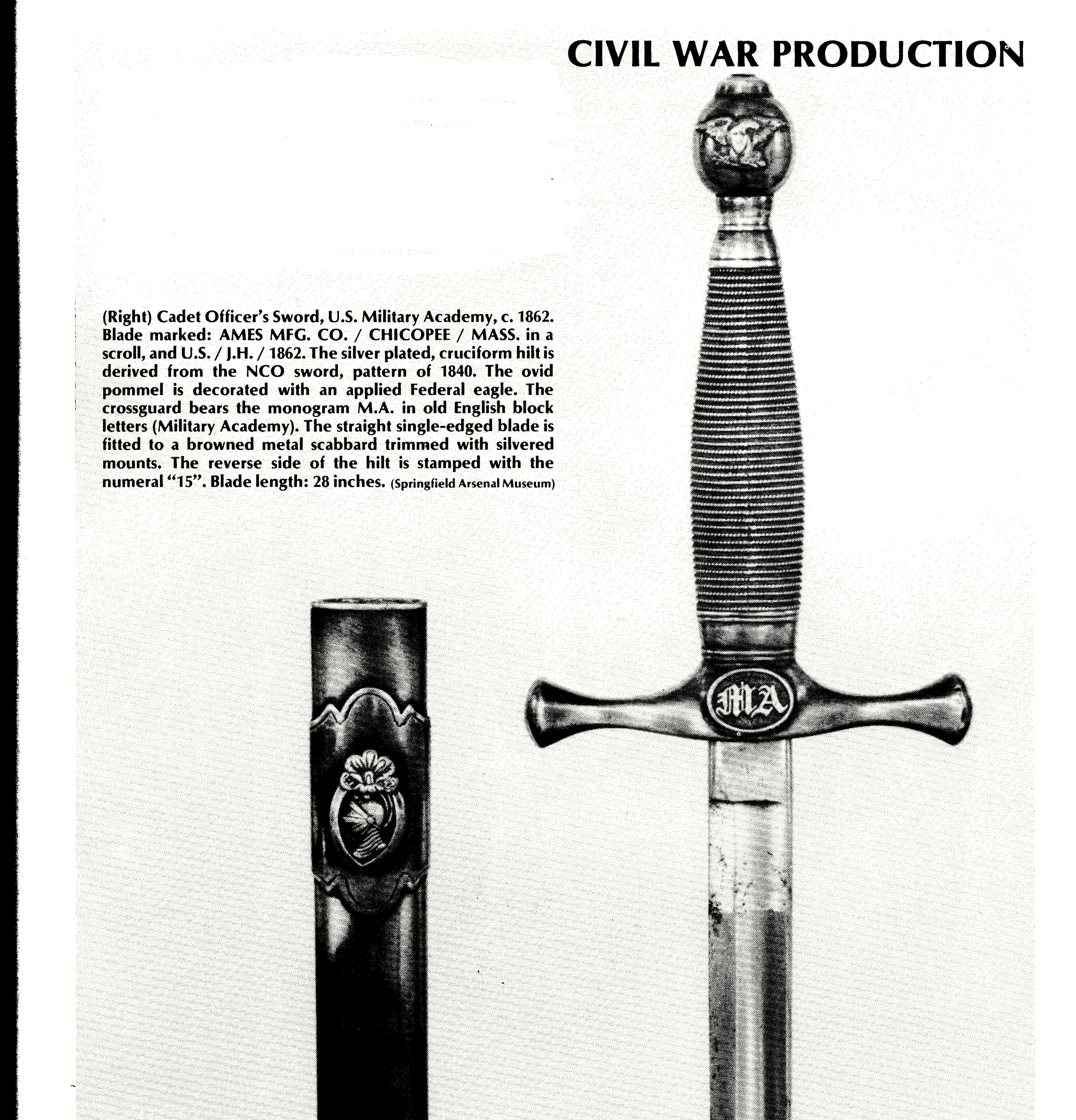 This is a rare example of early Ames U.S.M.A. Cadet Sword. This Ames 1850 looks like the Model 1872. Ames started supplying this in 1850.